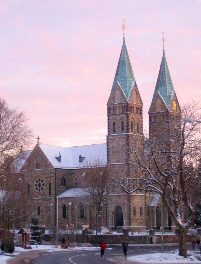 The big church in the small village Kalterherberg. Kalterherberg is part of the city of Monschau. This city is lying in the Eifel mountain region. This church is called the "Eifeldom". The legend is told that the church was build with money from smuggling. The border to belgium is only 500 metres away from the church. Der "Eifeldom". Die große Kirche von Monschau-Kalterherberg im Abendlicht.